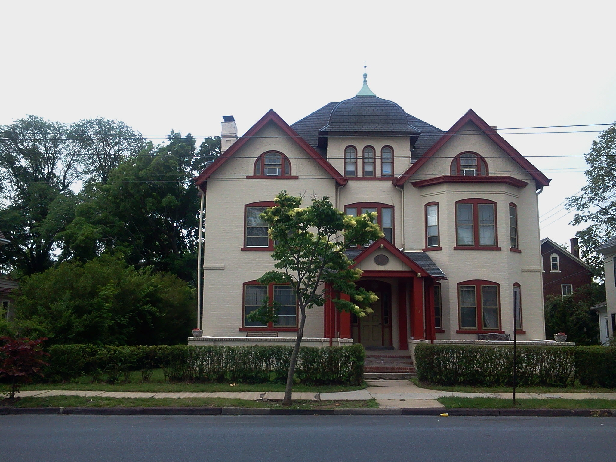 View of the University Club of Bethlehem, located at 62 E Market Street, Bethlehem PA 18018.